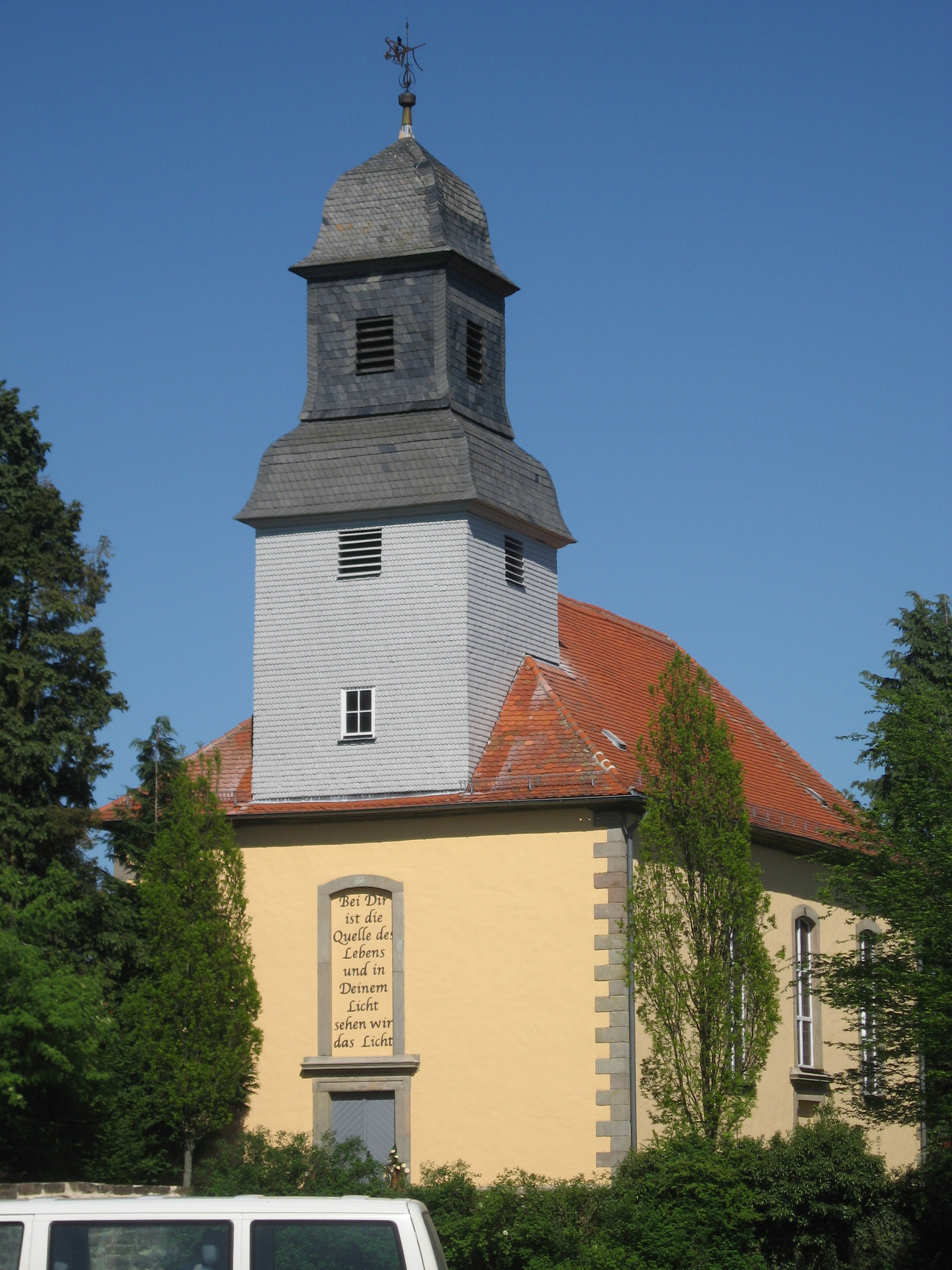 Church in Hülsa